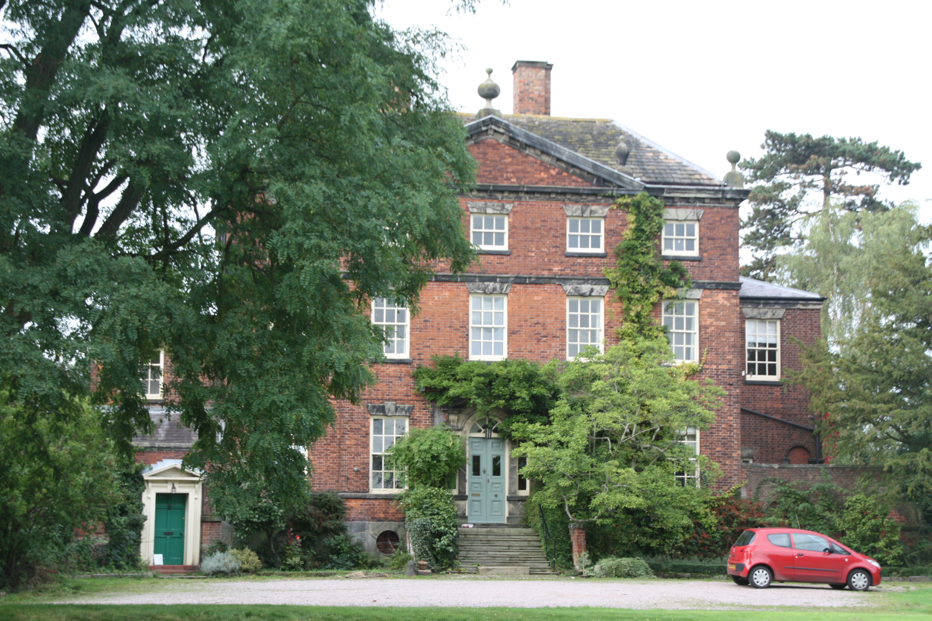 Astbury Rectory, a grade II* listed building in the village of Astbury, Cheshire.